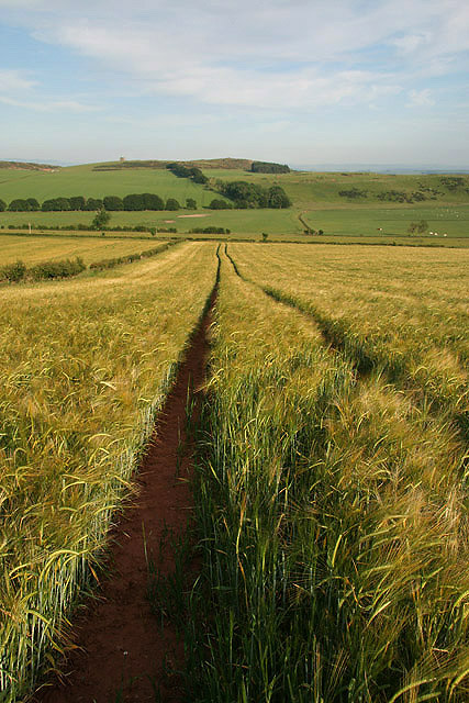 A barley field at Brotherstone Hill South Midway between Brotherstone Farm and New Smailholm Farm.